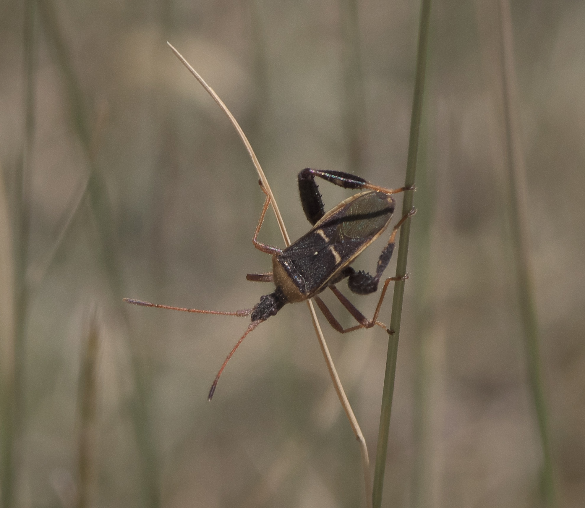 Narnia snowi, Family: Leaf-footed Bugs, ID Confidence: 90